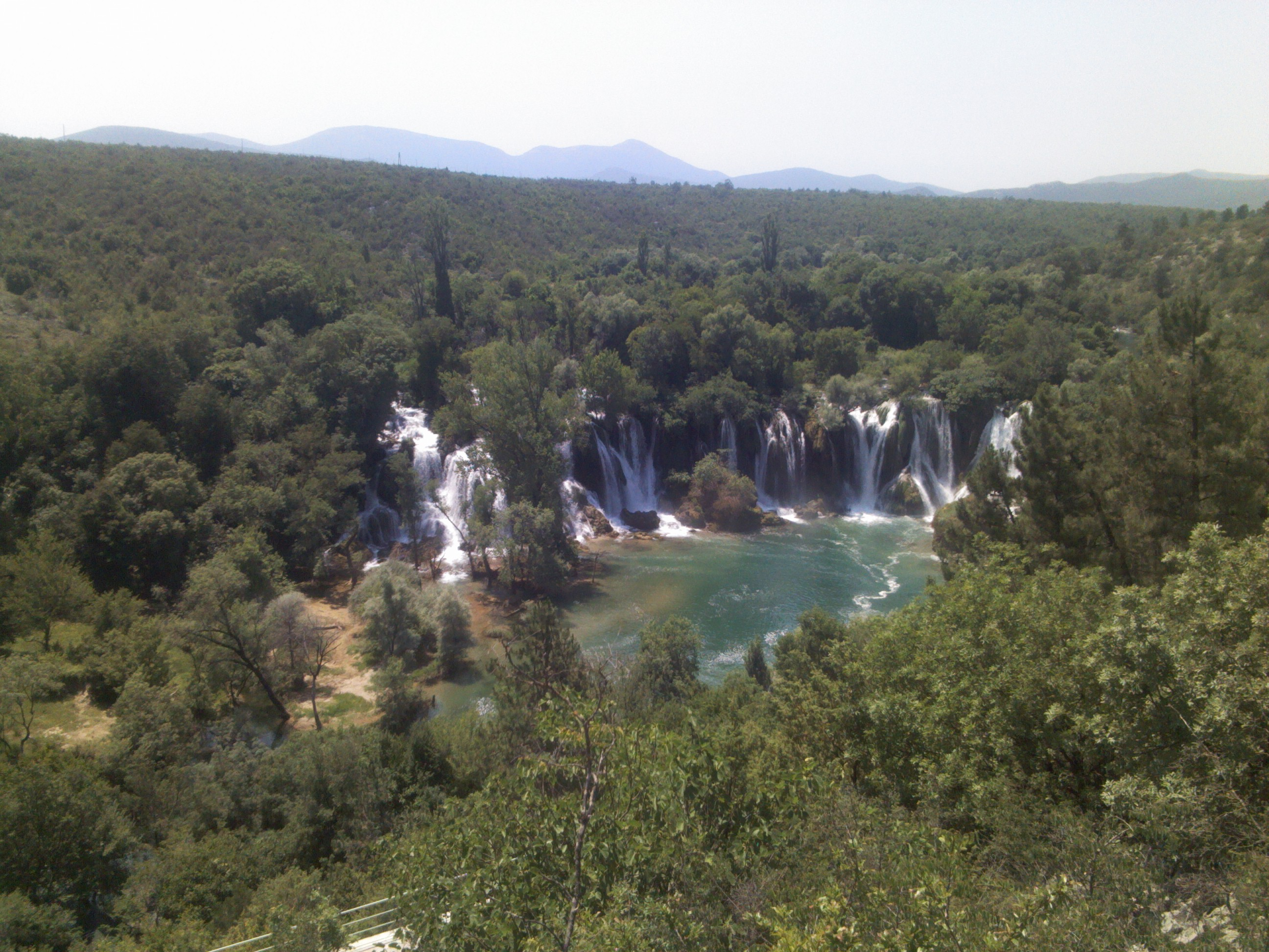 Kravice Waterfalls near Ljubuški in Bosnia-Hercegovina.